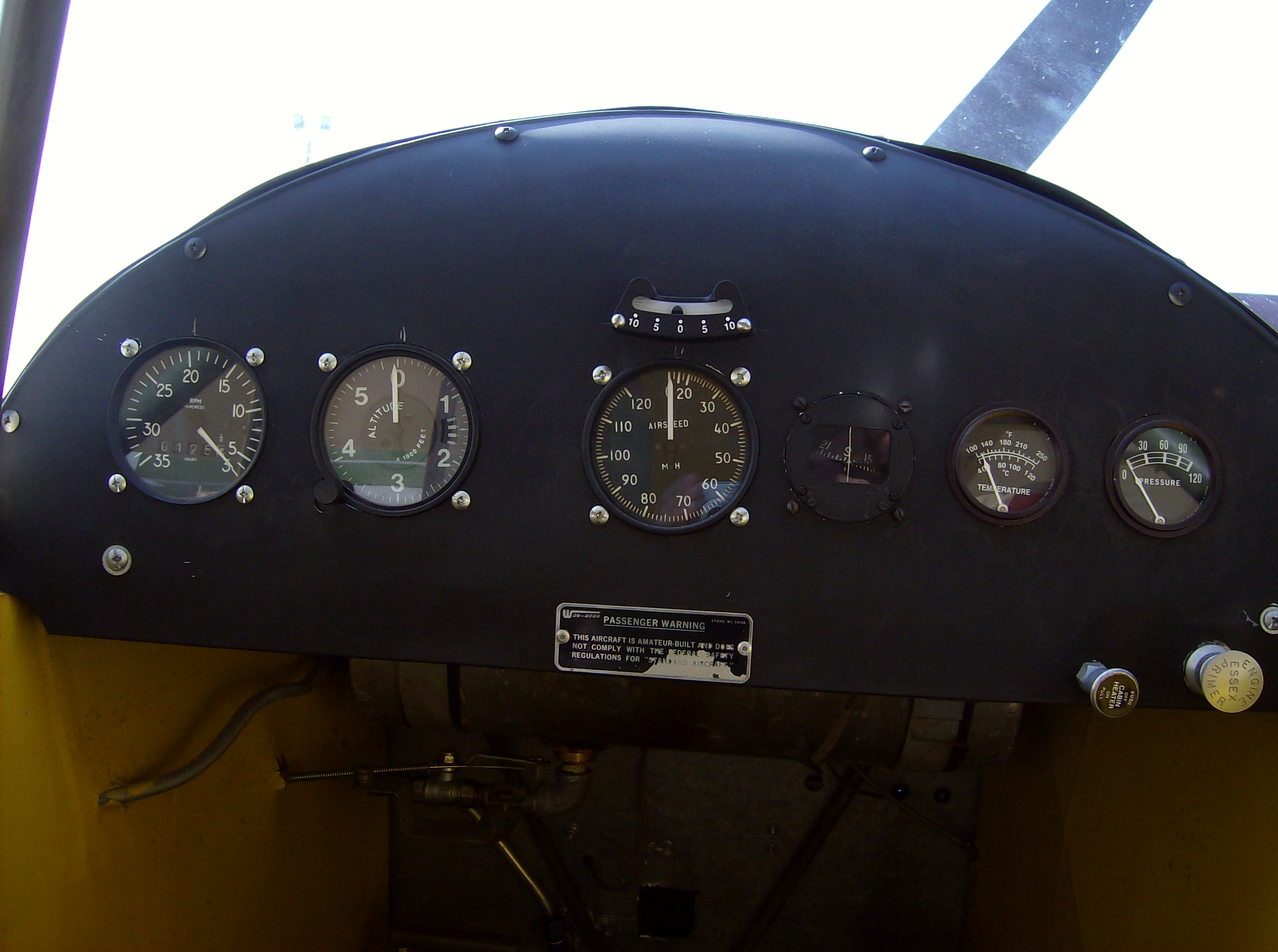 Inside the cockpit of a Piper Cub.